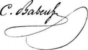 Signature of Gracchus Babeuf (1760-1797), French Revolutionist.